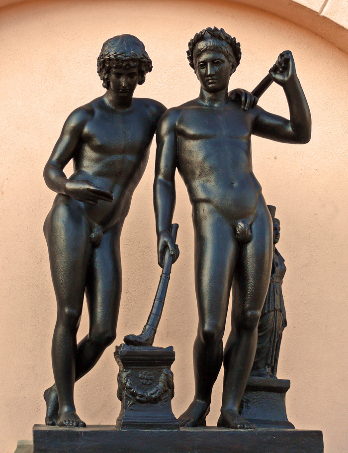 Ildefonso-Gruppe Kastor-und-Pollux in Weimar , Germany